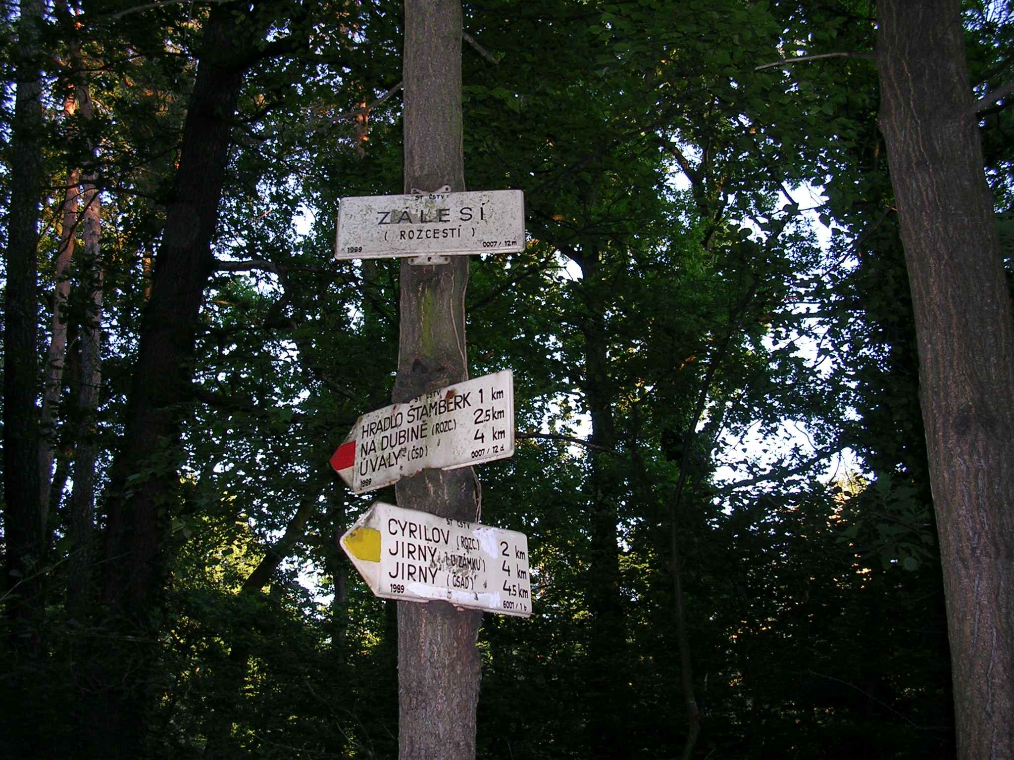 Klánovice, Prague, the Czech Republic. Hiking fingerpost "Zálesí" in Klánovice forest.